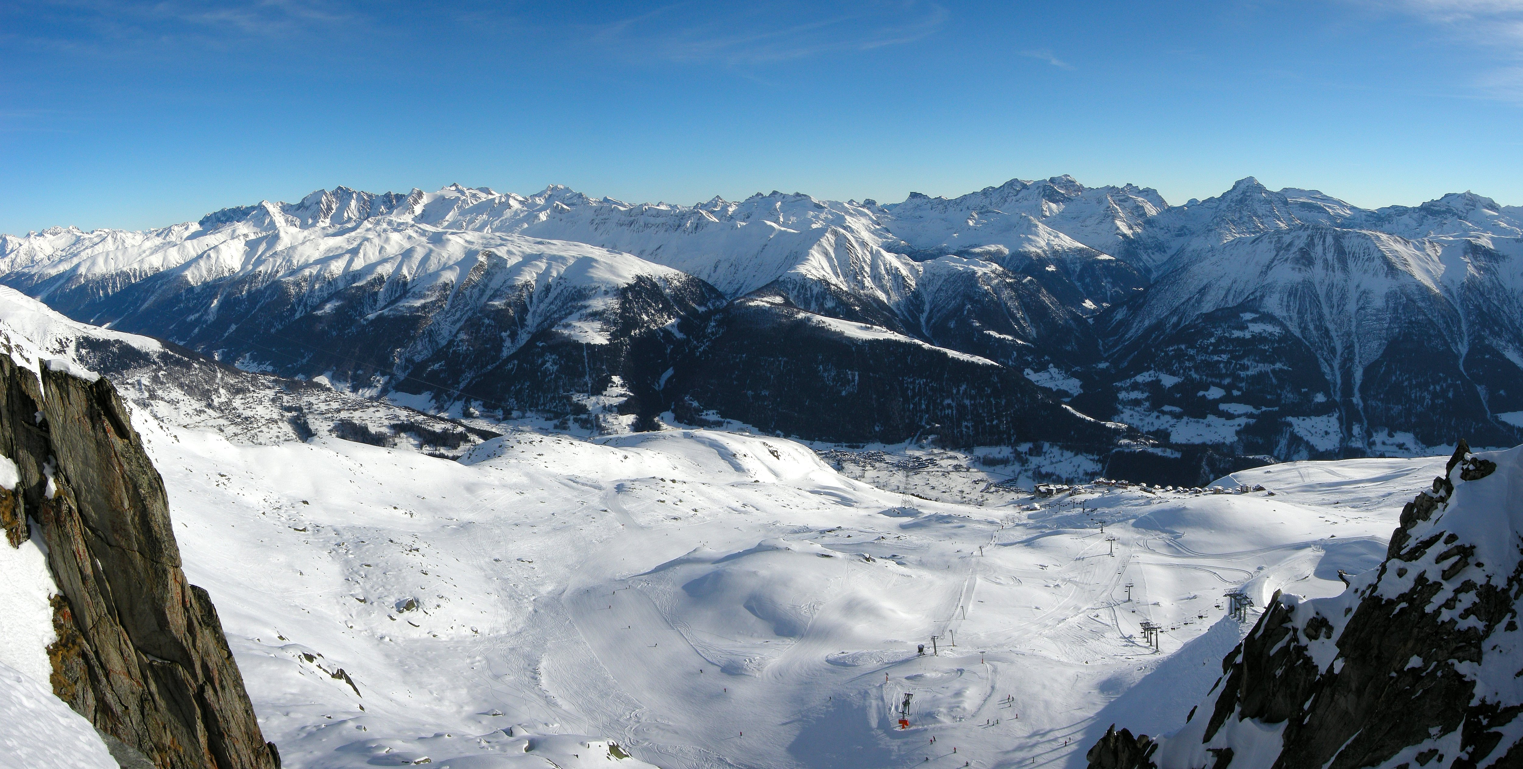 view from Eggishorn into the valley of the Rhône, Fiescheralp, Valais, Switzerland